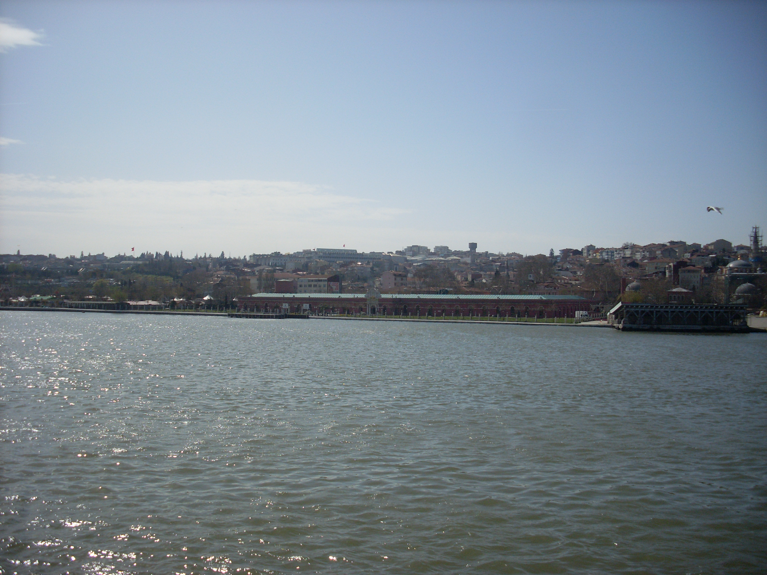 İstanbul - Feshane - Mart 2013 r1